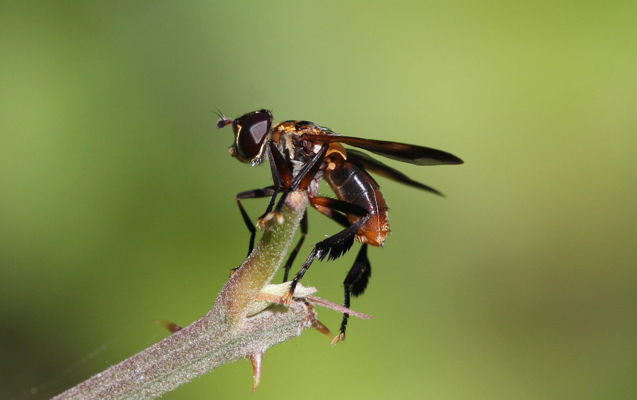 The tachinid fly Trichopoda pennipes, photographed just south of Koper, Slovenia